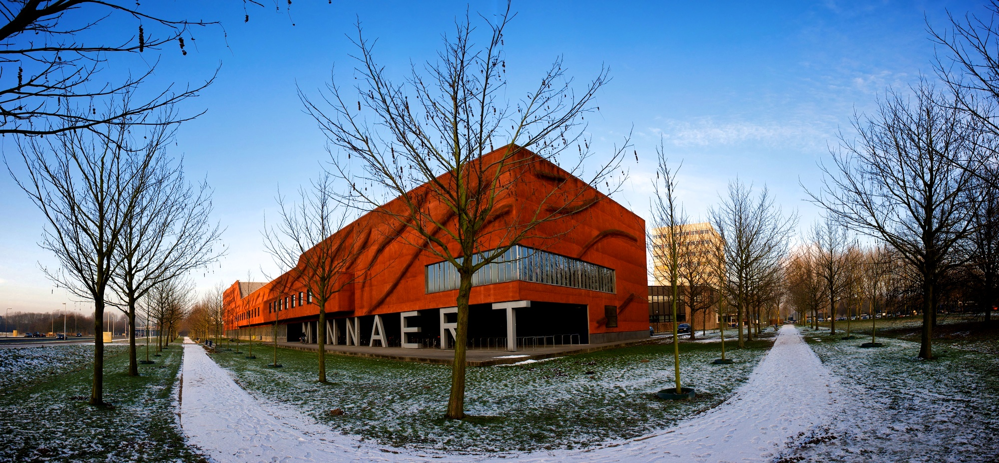 Minnaertgebouw, Utrecht University, Utrecht, The Netherlands.